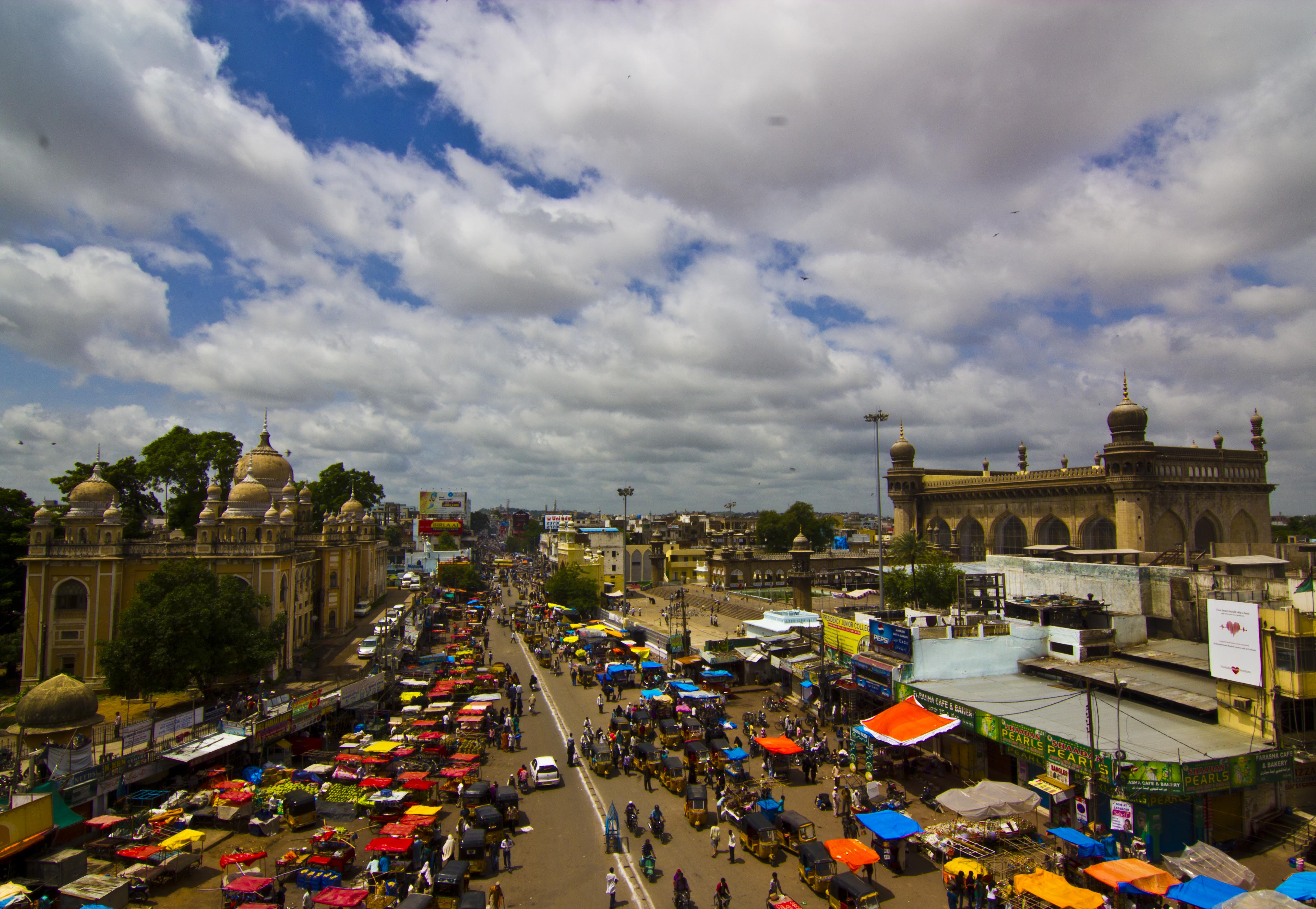 View of Mecca Masjid from Charminar